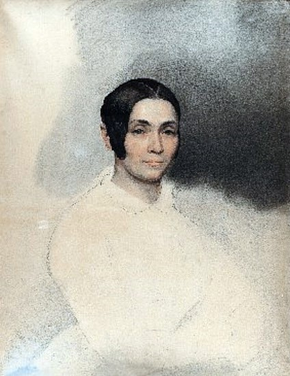 Portrait of Mrs. N.B., crayon on paper, 81,5 x 62,5cm.